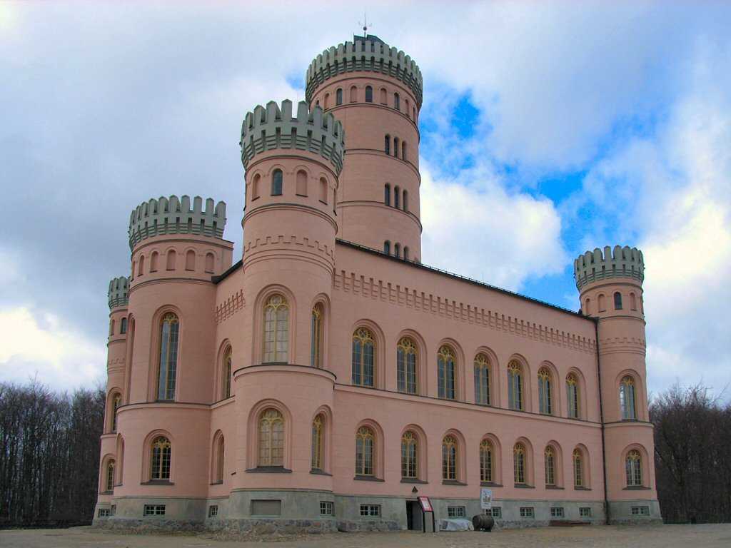 hunting lodge Granitz (island Rügen)